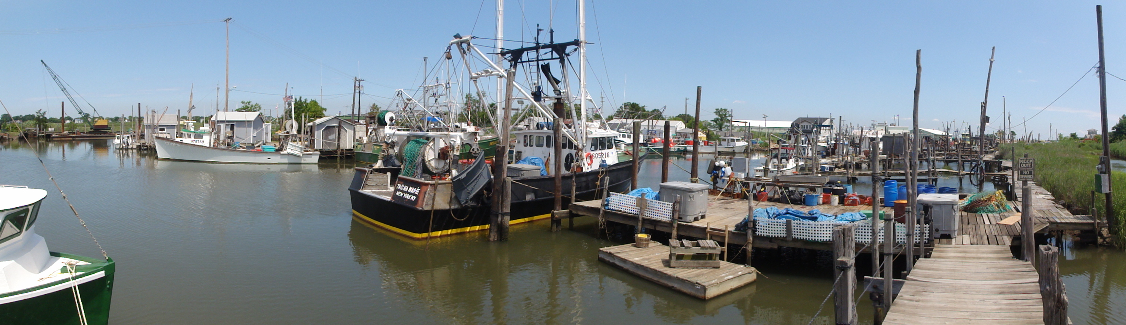 Belford Harbour, NJ